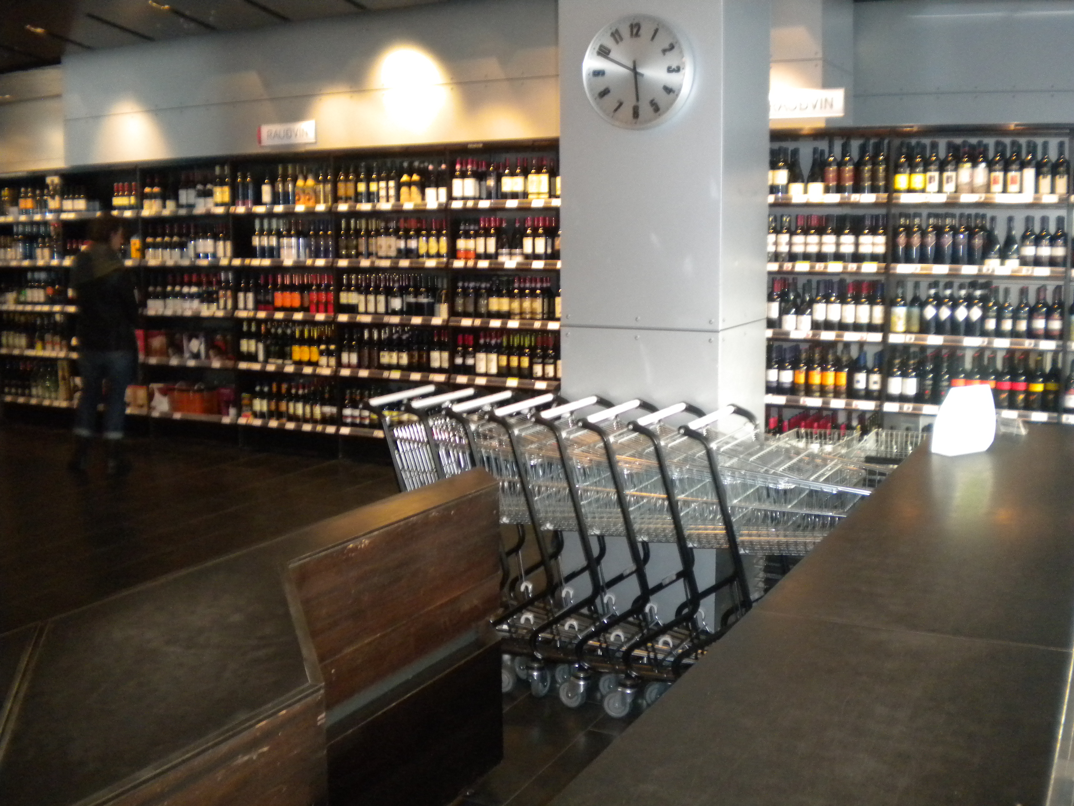 Inside a Vínbúð in Reykjavík